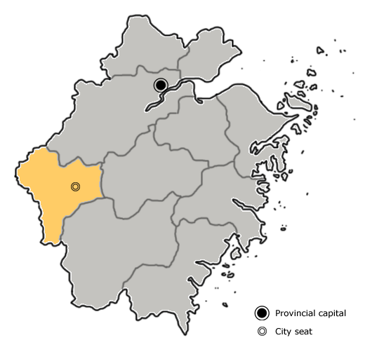 The prefecture-level city of Quzhou is highlighted on this map of Zhejiang province, People's Republic of China.